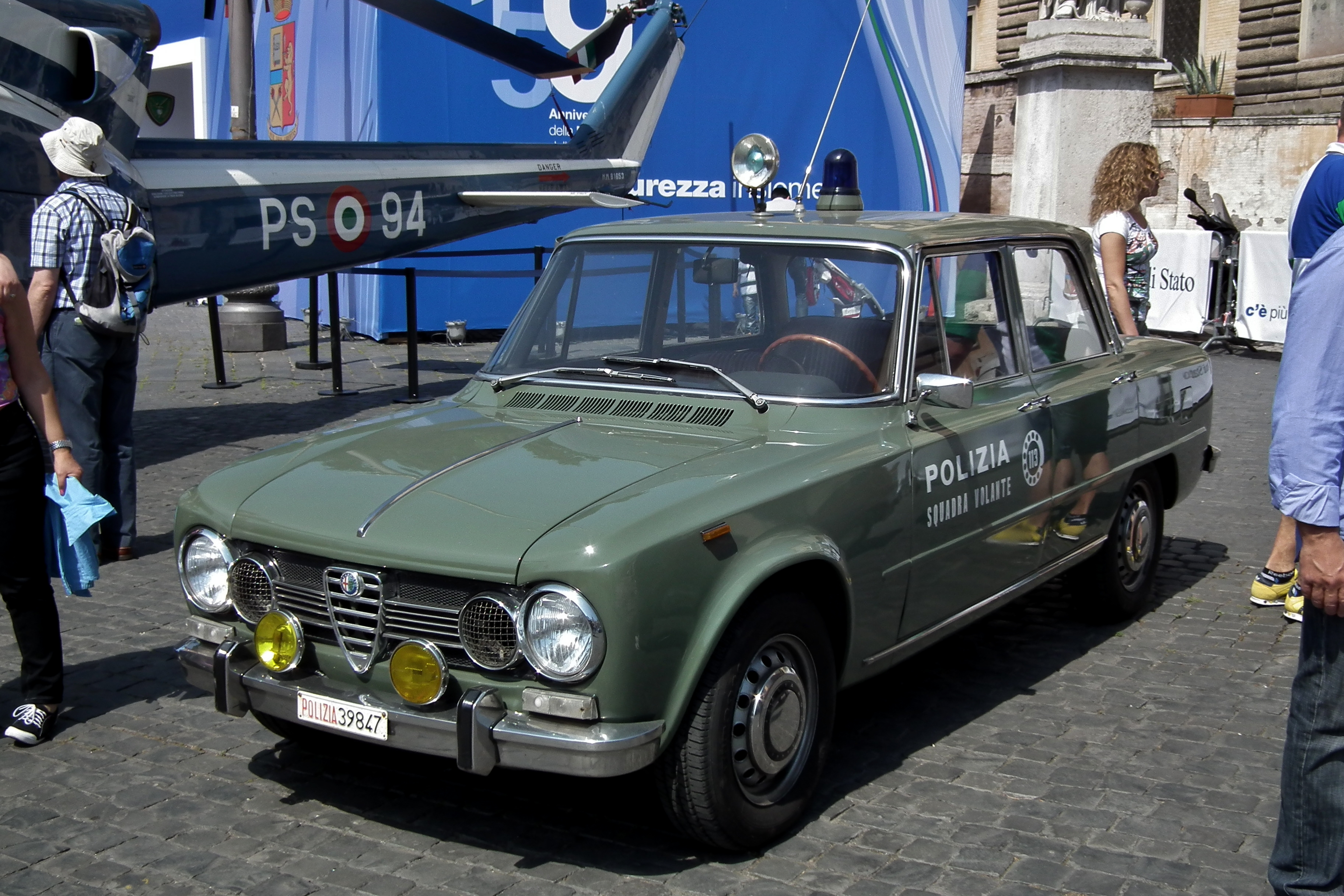 Alfa Romeo Giulia Super sedan. Operated by the Squadra Volante (Flying Squad) of the Polizia di Stato (Italian State Police). Taken at a Polizia display in the Piazza del Popolo in Rome.